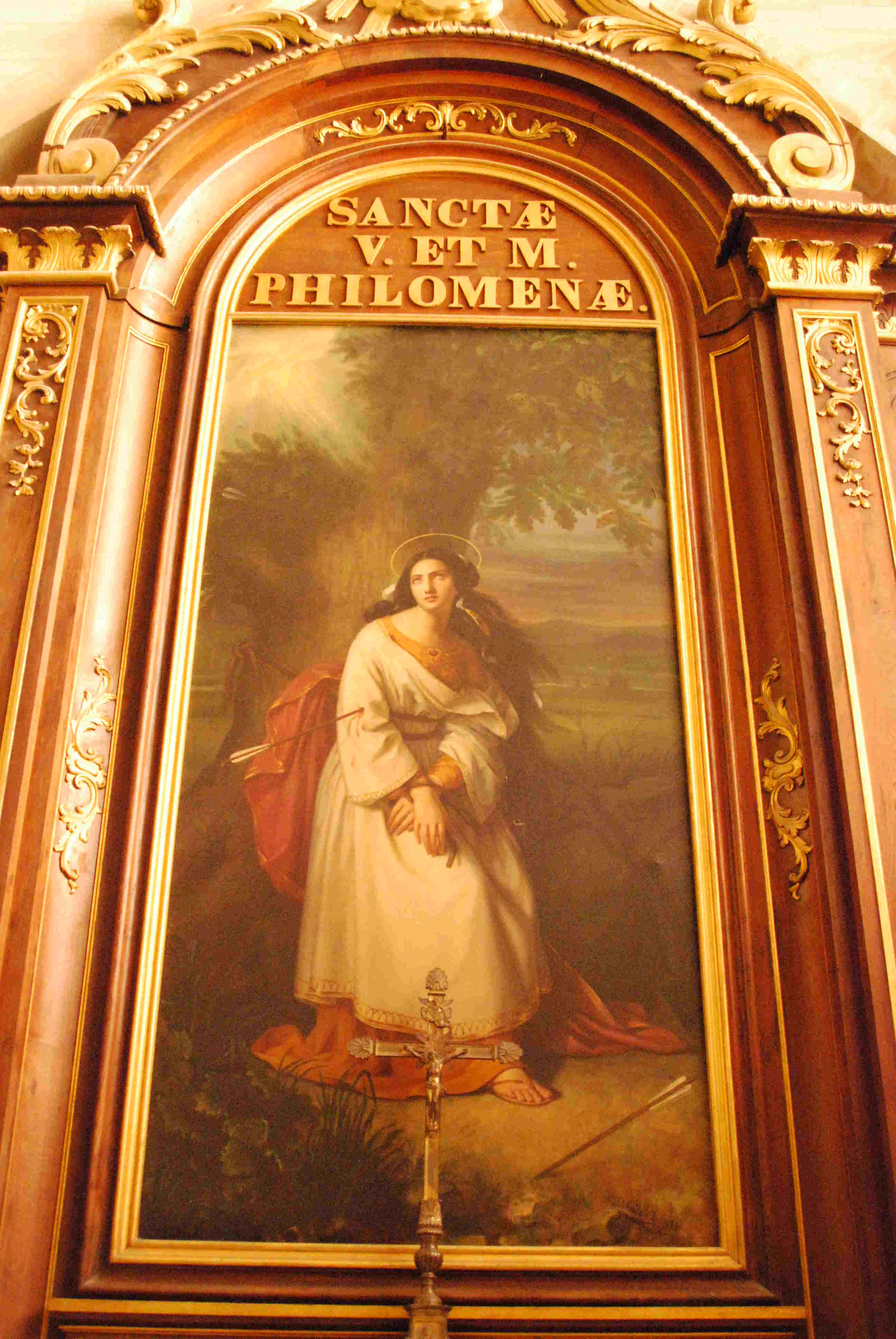 Painting of Saint Philomena in Bayeux Cathedral, created by Théodelinde Dubouché and installed in 1839.